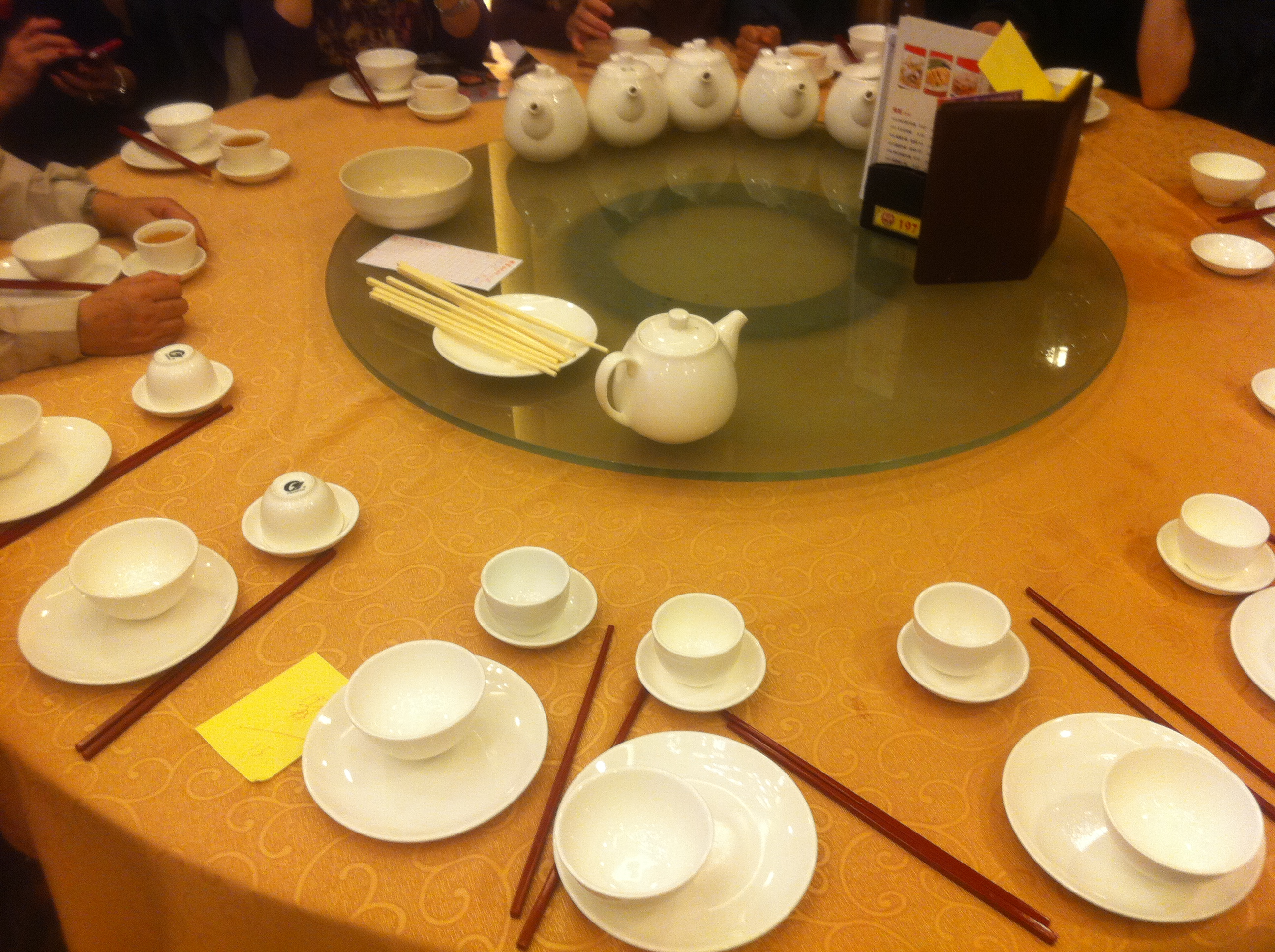 Star Seafood Restaurant, Sai Ying Pun, Hong Kong